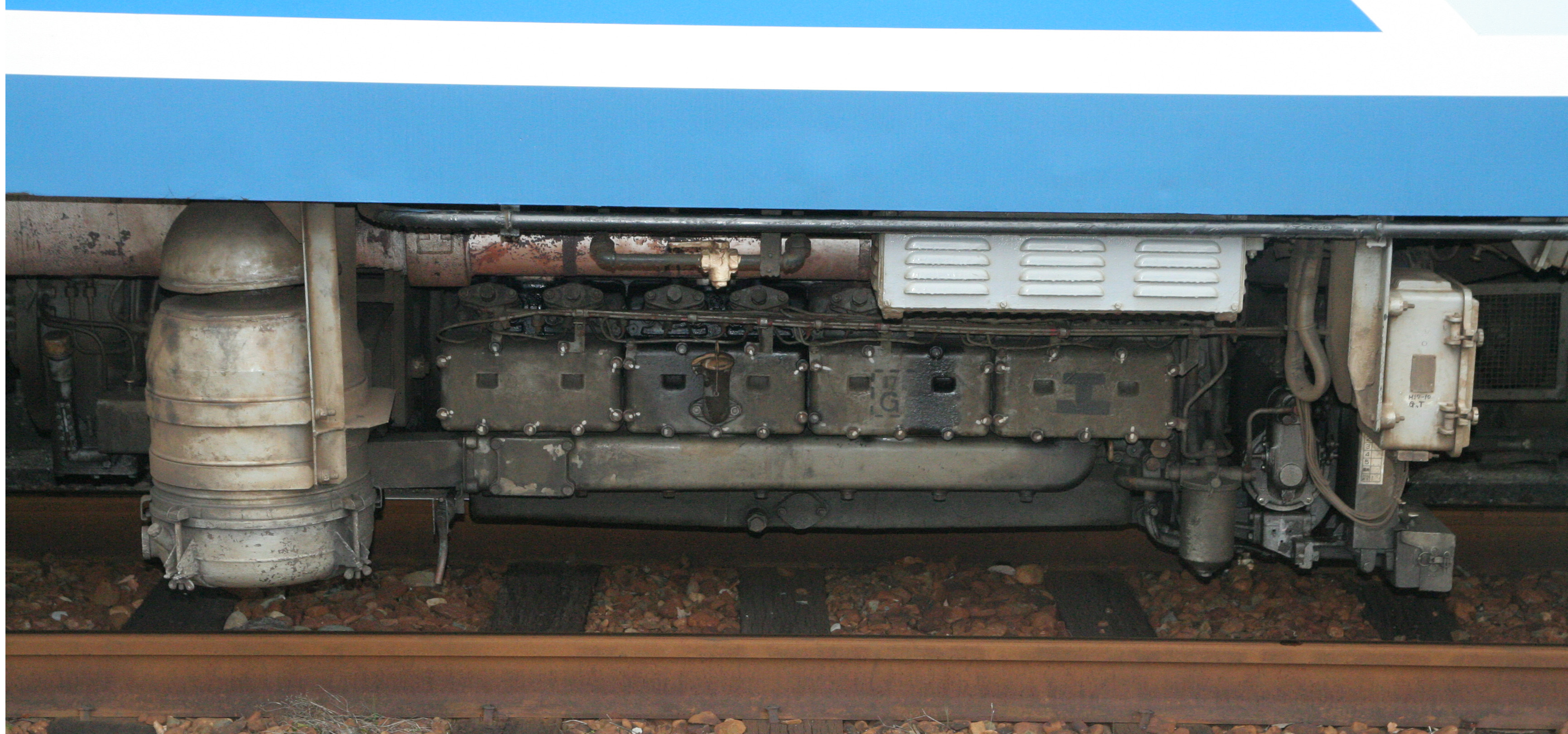 West Japan Railway Honobono SUN-IN DMH17H kiro59-551 Hakubi Line gokei